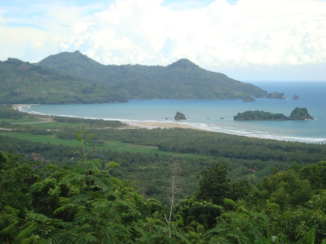 Beautiful and Green Beach Panggul